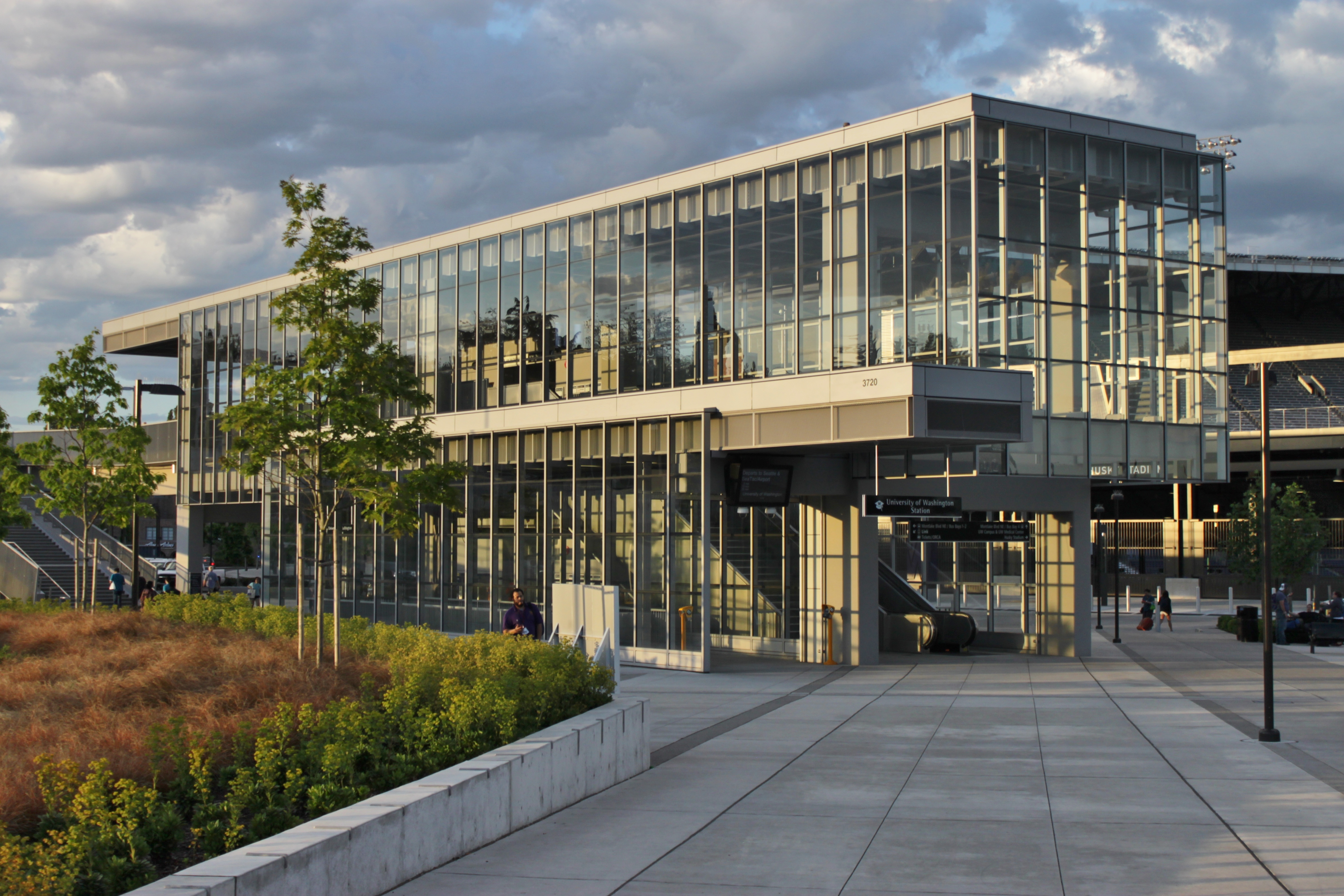 The entrance to University of Washington station in Seattle, Washington.